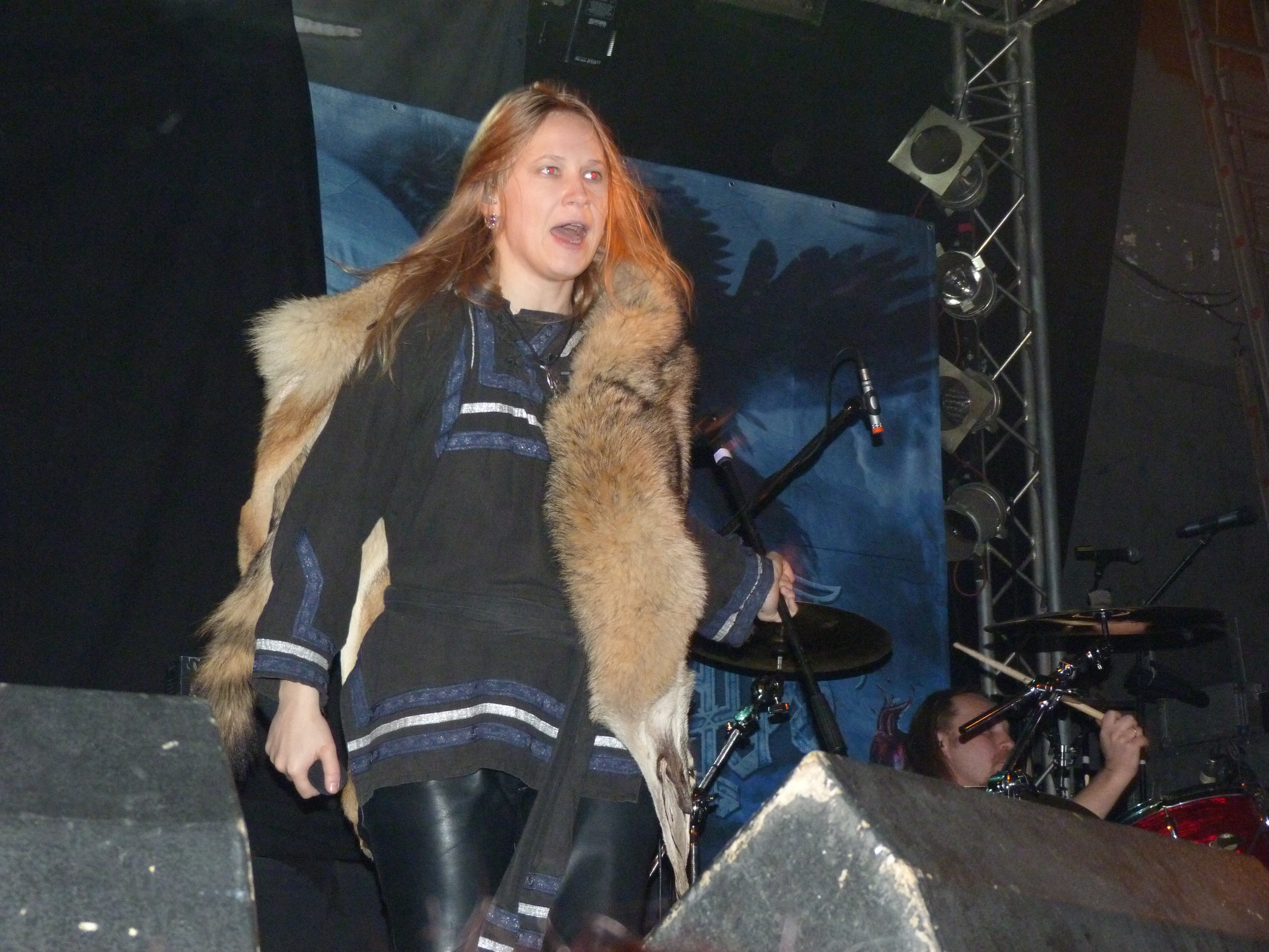 Live on the 10th of December 2014. Budapest, Club 202. The beginnings of ARKONA date back to 2002, when members of local pagan community "Vyatichi", Masha "Scream" Arhipova and Alexander "Warlock" Korolyov, decided to form a band that mirrored their individual philosophy and musical tastes. The band, at the time still known as Hyperborea, comprised Masha "Scream" Arhipova (vocals), Eugene Knyazev (guitar), Eugene Borzov (bass), Ilya Bogatyryov (guitar), Alexander "Warlock" Korolyov (drums), and Olga Loginova (keyboard), but it wasn’t until February 2002 that ARKONA surfaced from the depths of Russia’s underground scene. ARKONA soon decided to record several of their pagan/folk songs for their first demo. The recording took place at CDM-Records Studio in December 2002. Forrás: ©© Derzsi Elekes Andor, Budapest, 2014, Published in the Metapolisz DVD line. You are authorised to use this photo under Creative Commons – even for commercial, for profit purposes. The vid must be attributed to Derzsi Elekes Andor. All of the photos and vids in the Metapolisz DVD line are under Creative Commons and can be used even for commercial – for profit – purposes. Recommended Citation Derzsi Elekes Andor: Metapolisz DVD line